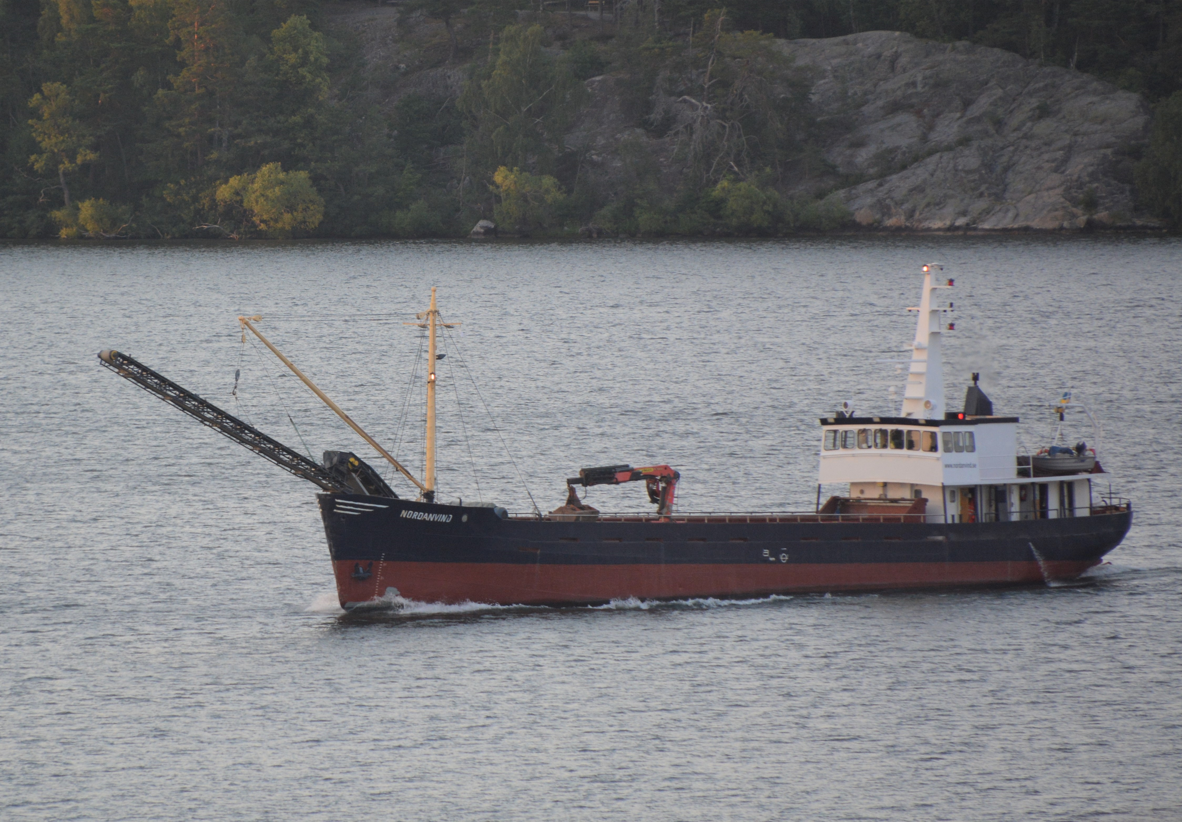 MS Nordanvind, Lake Mälaren